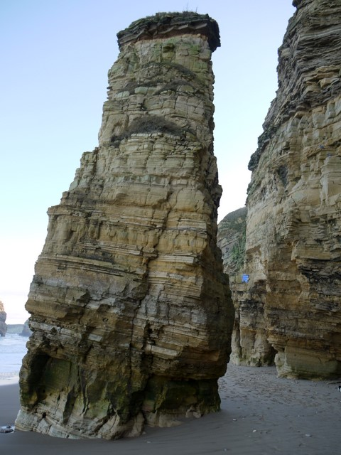 'Lot's Wife' sea-stack, Marsden Bay. Lot's wife is a figure from the Biblical book of Genesis known for being punished by being turned into a pillar of salt Lot's wife A geological formation on Mount Sodom in Israel overlooking the Dead Sea is called 'Lot's Wife', because of the shape and location of the feature. Interestingly, but probably unknown to those who named the Marsden Bay stack shown here, salts of halite and anhydrite also played an important part in the geology of the rocks along the north-east coast. Large amounts of salts were deposited in the shallow tropical Zechstein Sea that extended from the Pennines over to Germany and Poland in Europe during the Permian period. Subsequent dissolution of these salts caused collapse (brecciation) of the overlying Magnesian Limestone rock layers that predominantly make up the cliffs today, providing much of their distinctive appearance and properties. In some locations, between South Shields and Seaham, all that is left of these once several-metre thick layers, are thin residues. A fourth chalk prominence off the western coast of the Isle of Wight, from which The Needles take their name1436936, was also called 'Lot's Wife'. It collapsed in 1764. There is another, similarly named coastal feature in Dumfries & Galloway 784085 and undoubtedly others.